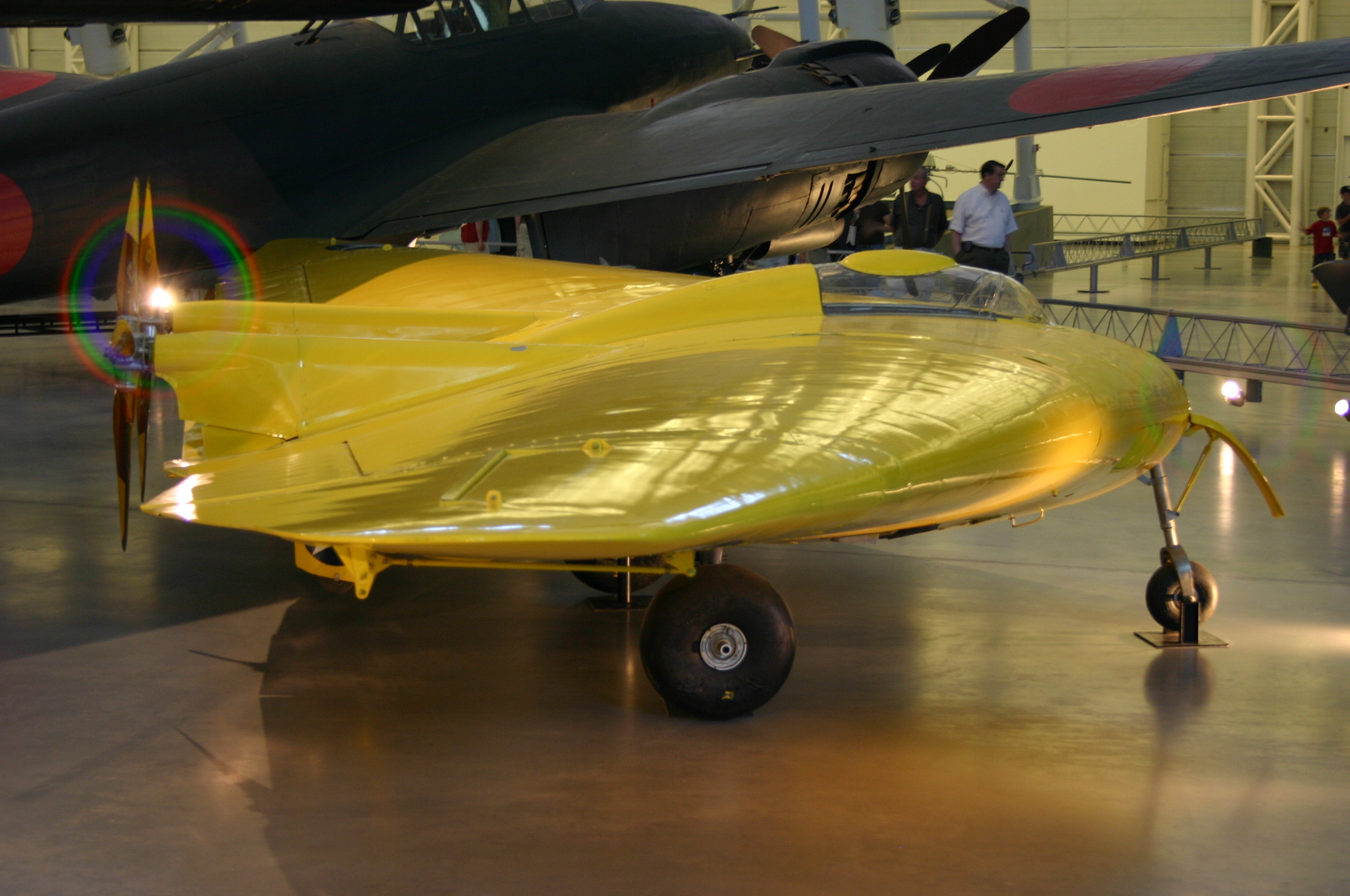 Northrop N-1M image taken at the Steven F. Udvar-Hazy Center in Dulles, VA.